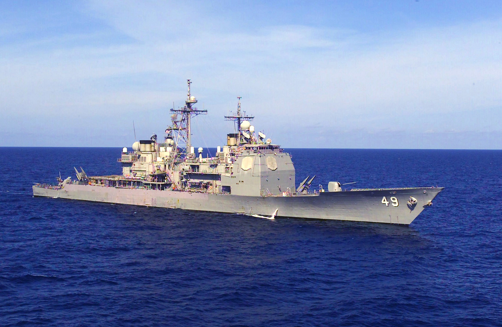 Gulf of Thailand (June 12, 2003) - The guided missile cruiser USS Vincennes (CG 49) conducts training operations during the Thailand phase of exercise Cooperation Afloat Readiness and Training (CARAT). Vincennes is forward deployed to Yokosuka, Japan. CARAT is a regularly scheduled series of bilateral military training exercises between the U.S. and several Association of Southeast Asian Nations (ASEAN) countries. U.S. Marine Corps photo by Pfc. Thomas D. Hudzinski (RELEASED)